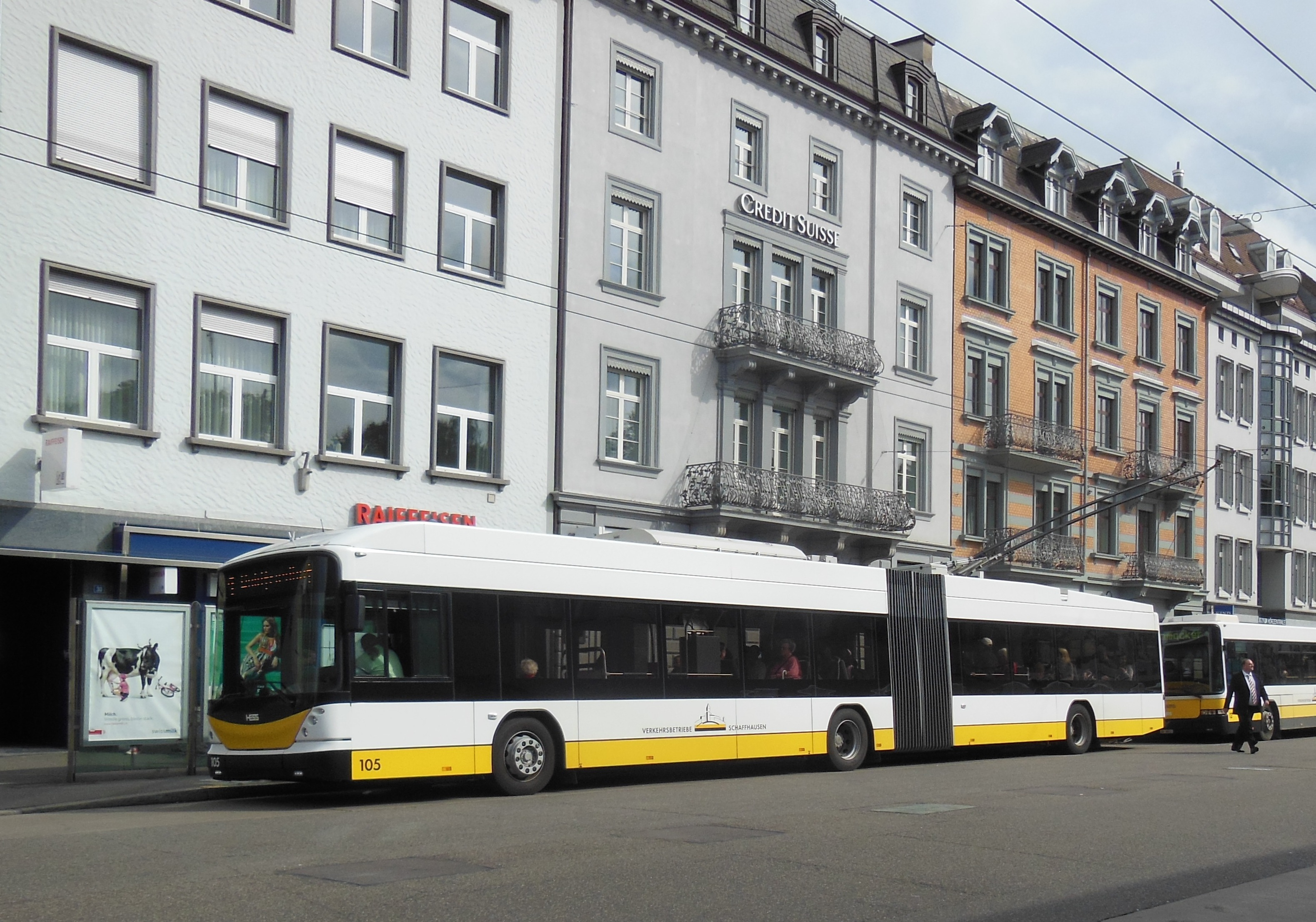 Schaffhausen trolleybus 105, a 2011-built Hess "Swisstrolley", across the street from Schaffhausen railway station.